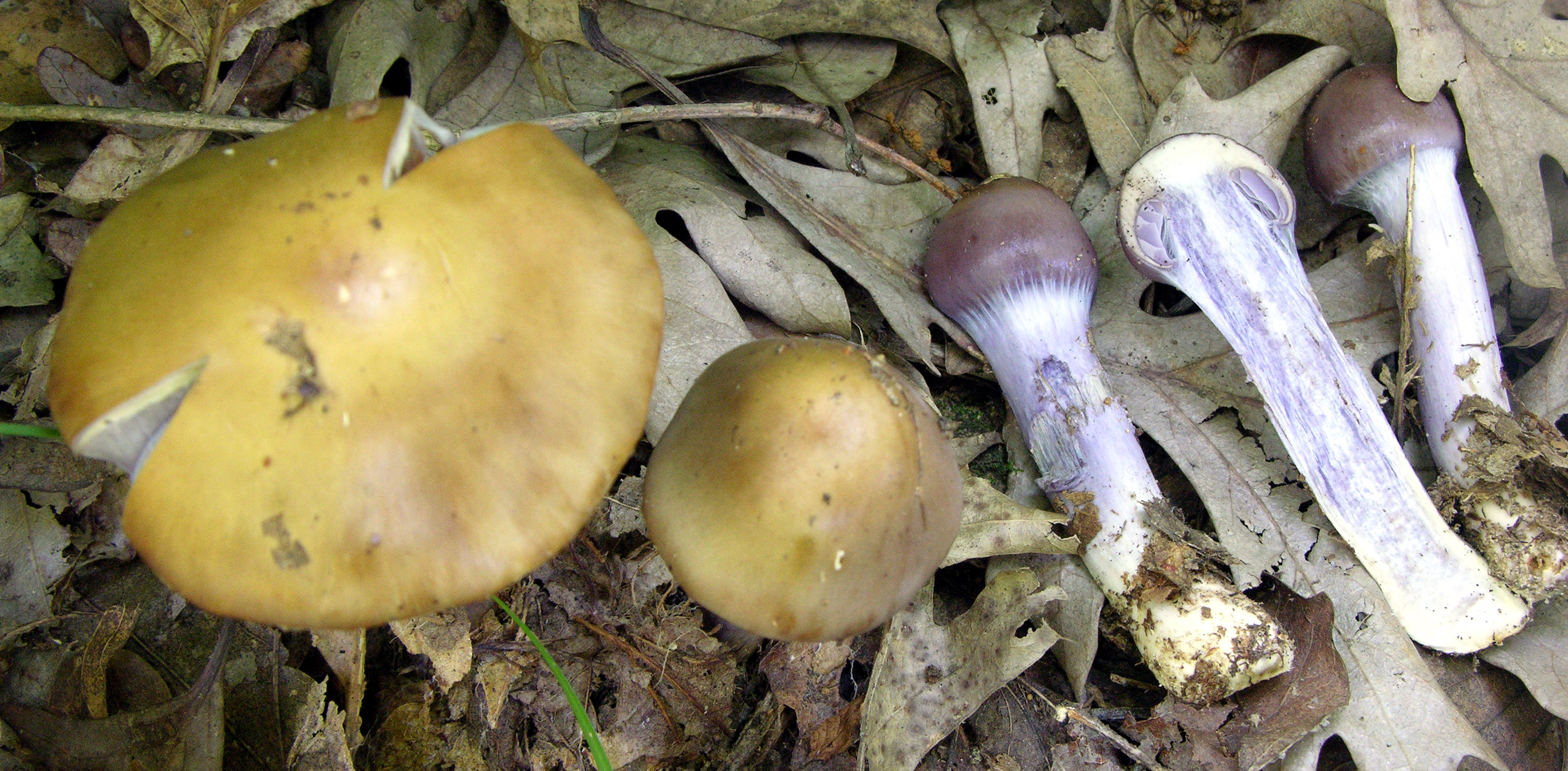 Fruit bodies of the fungus Cortinarius cylindripes Kauffman. Specimens photographed in Walking Iron Park, Dane Co., Wisconsin, USA.